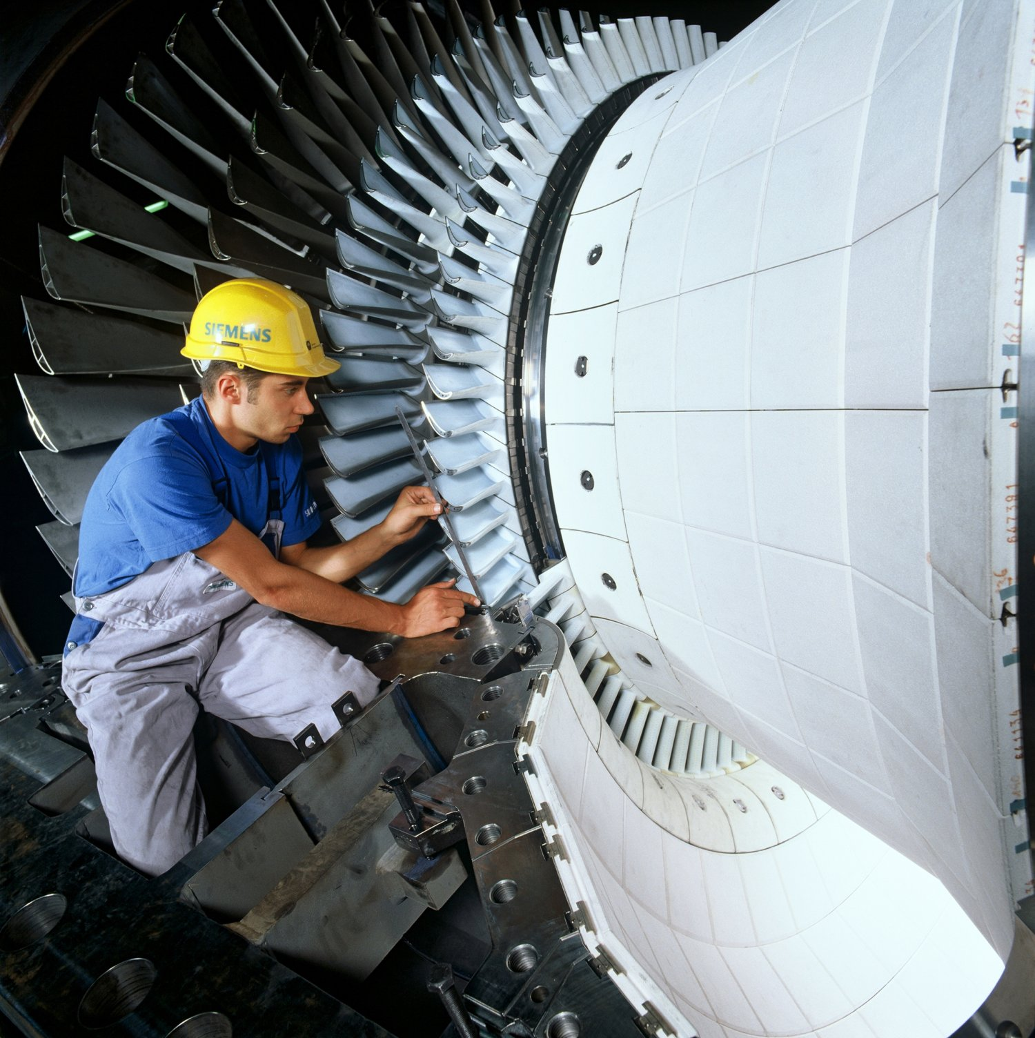 Assembly of the rotor of a SGT5-4000F Siemens gas turbine.